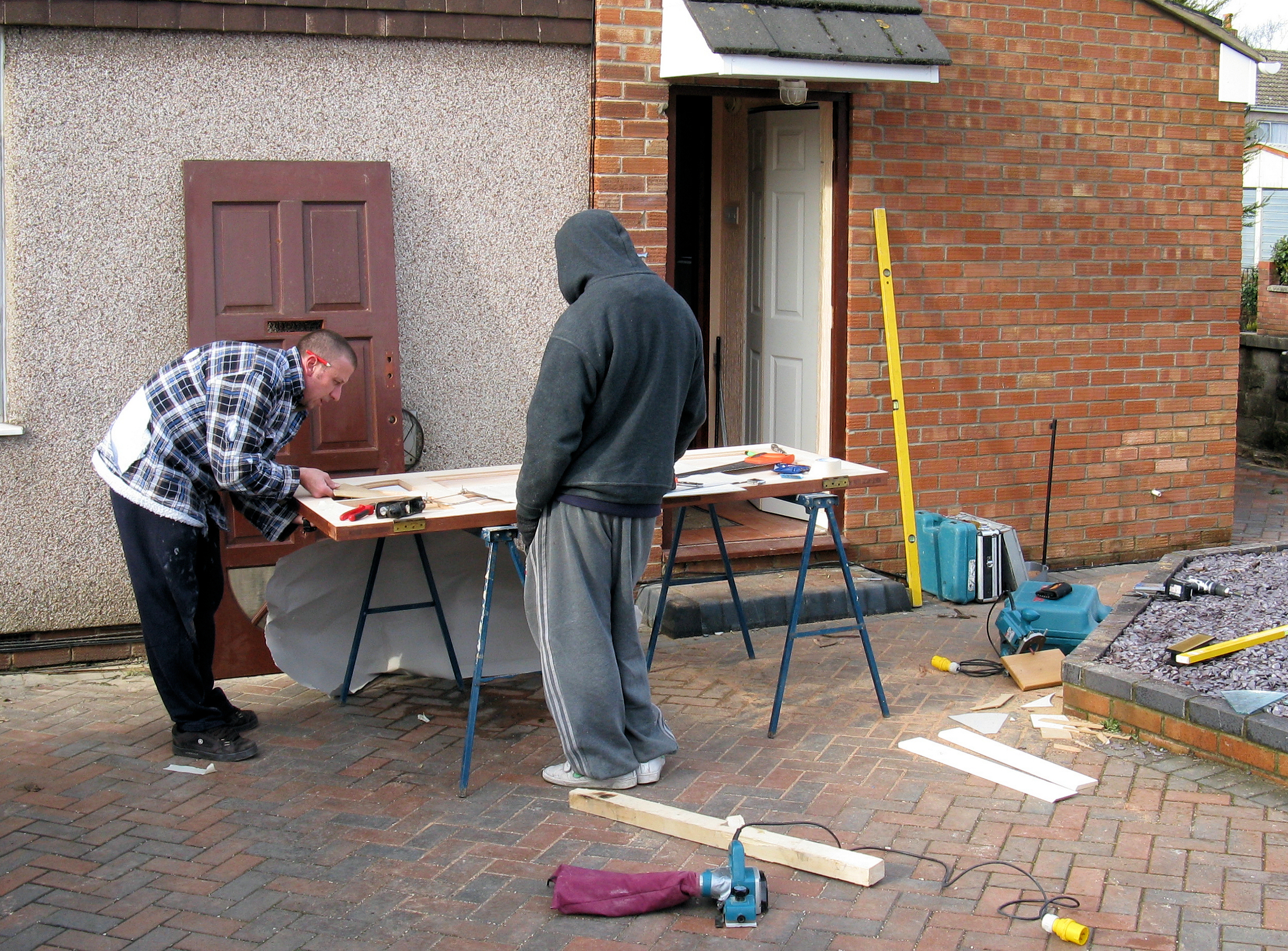 A carpenter and his mate are replacing a front door, in Yate, South Gloucestershire, England. The old door, leaning against the house, was damaged by an out-of-control car that hit the house.